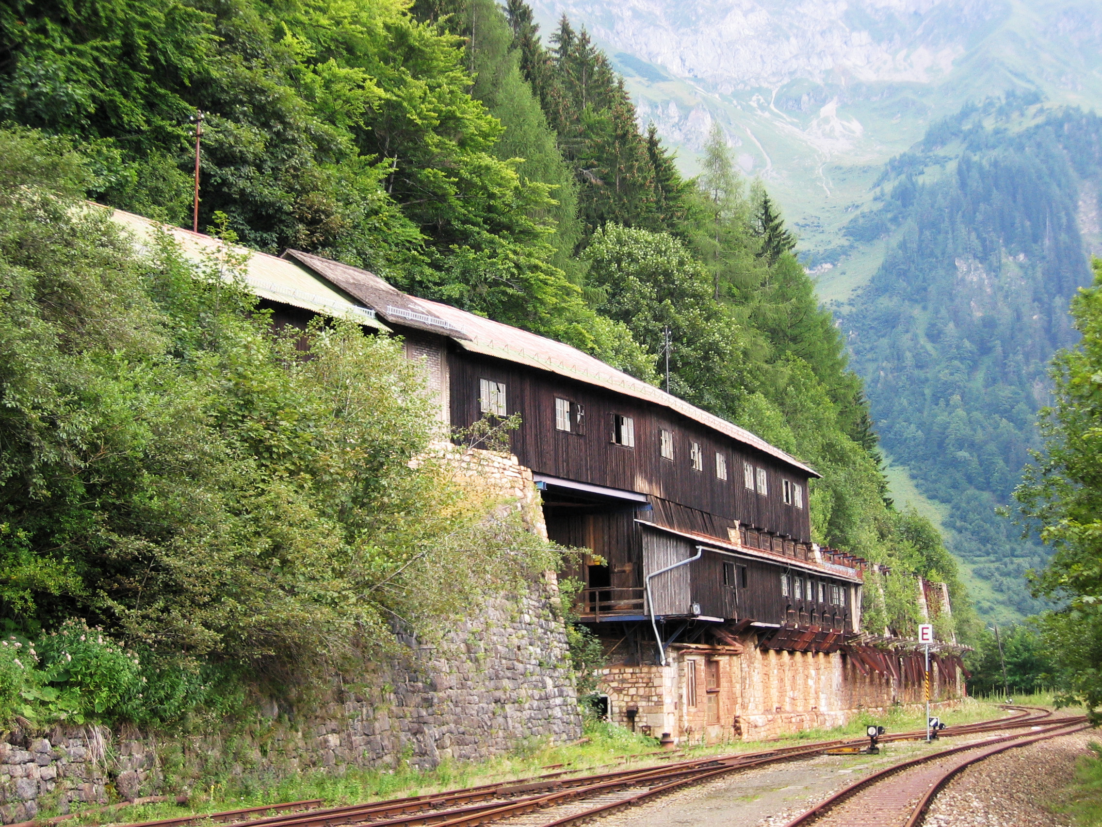 Iron ore loading facility at Erzberg station